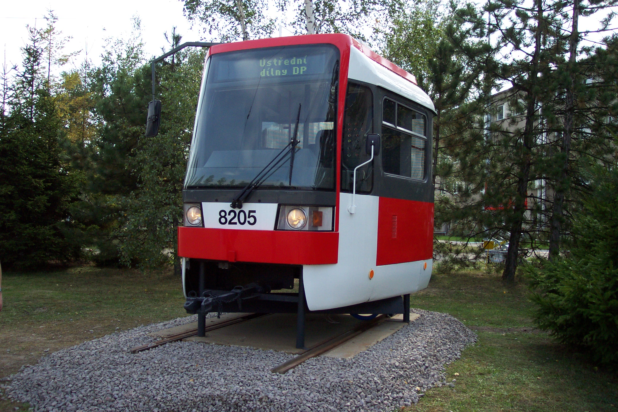 Tram type T3R rebuilt as memorial in 2006help